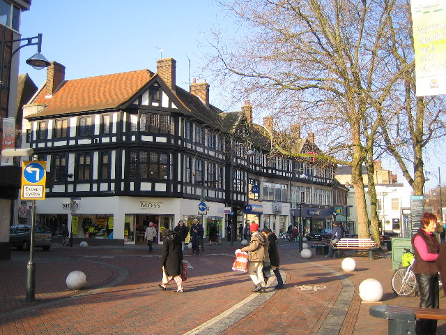 Watford: Market Street and High Street. The junction of Market Street with the pedestrianized High Street looking westwards. The timbered buildings date from 1928.